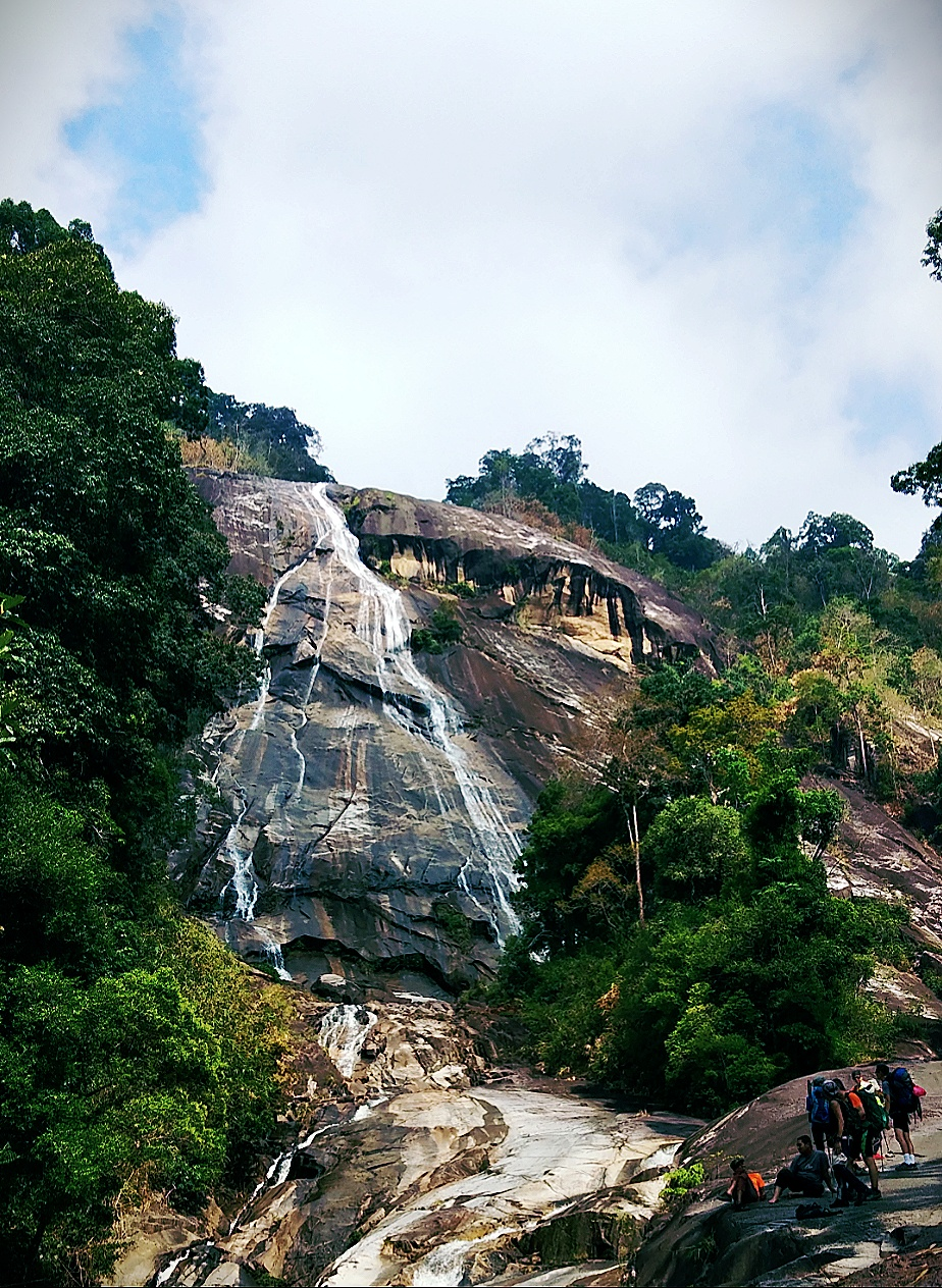 I do a field trip to Gunung Stong Kelantan. It has nice view and has a waterfall.